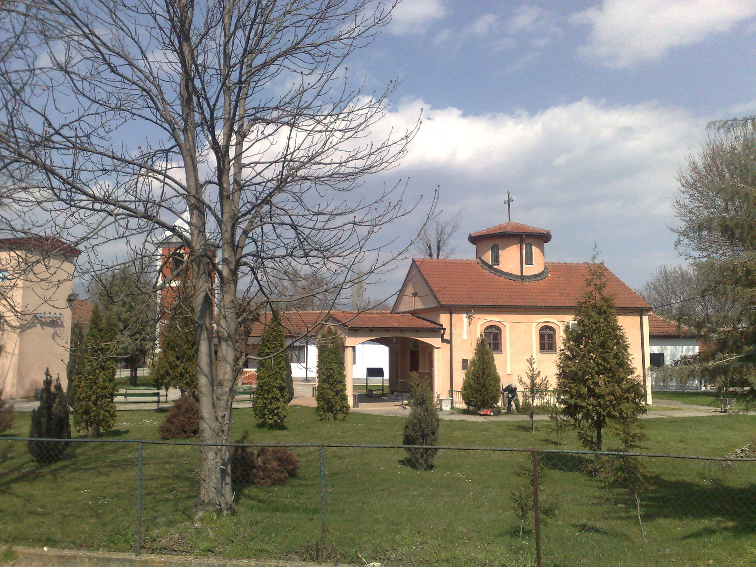 Church of St.George in village of Trubarevo, Macedonia